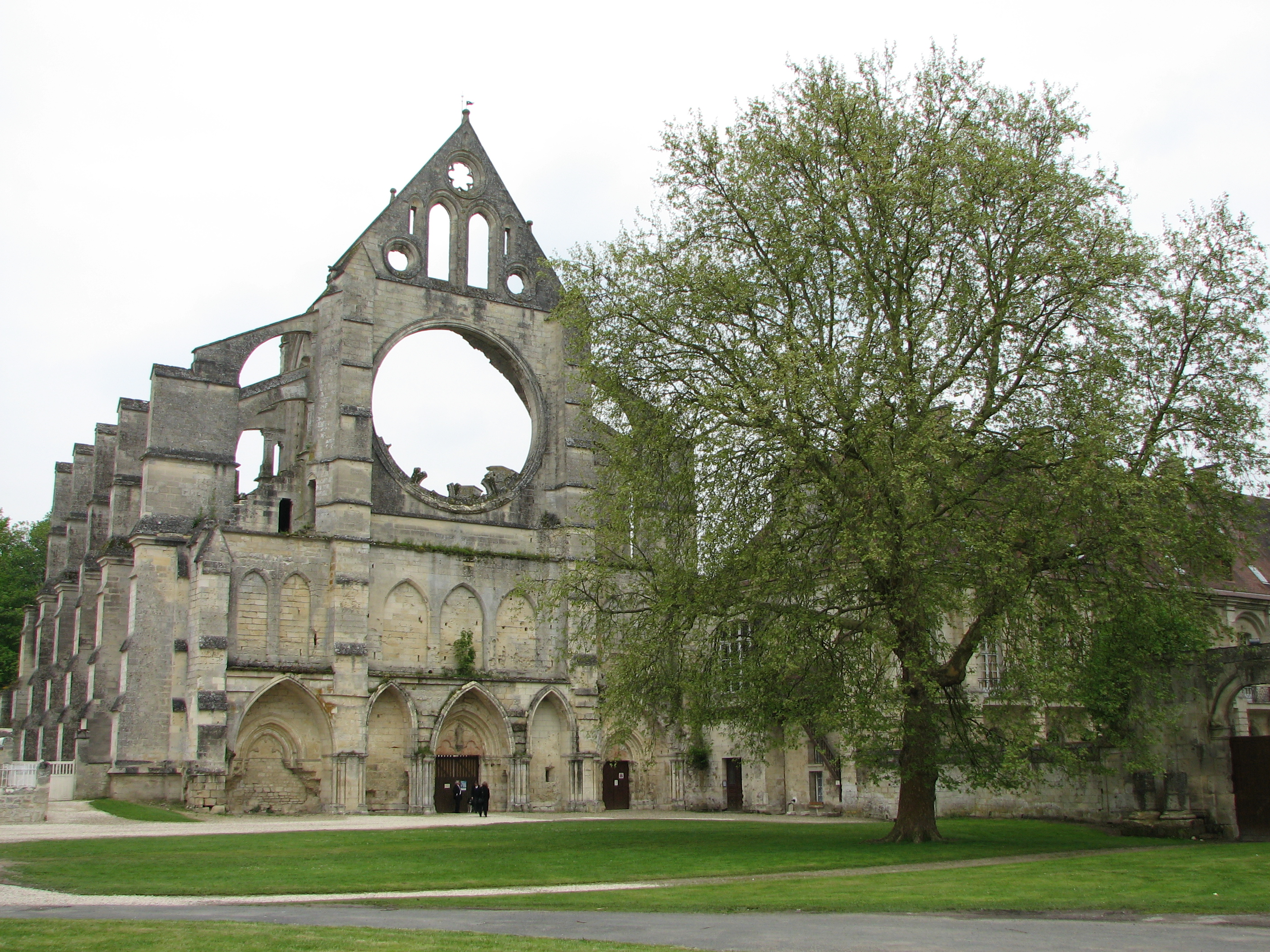 Abbaye de Longpont in the French departement de l'Aisne